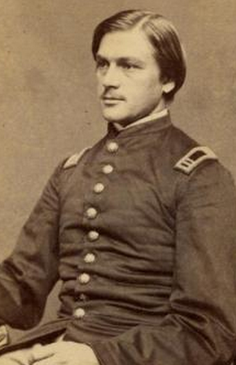 John F. Godfrey, soldier and attorney, United States